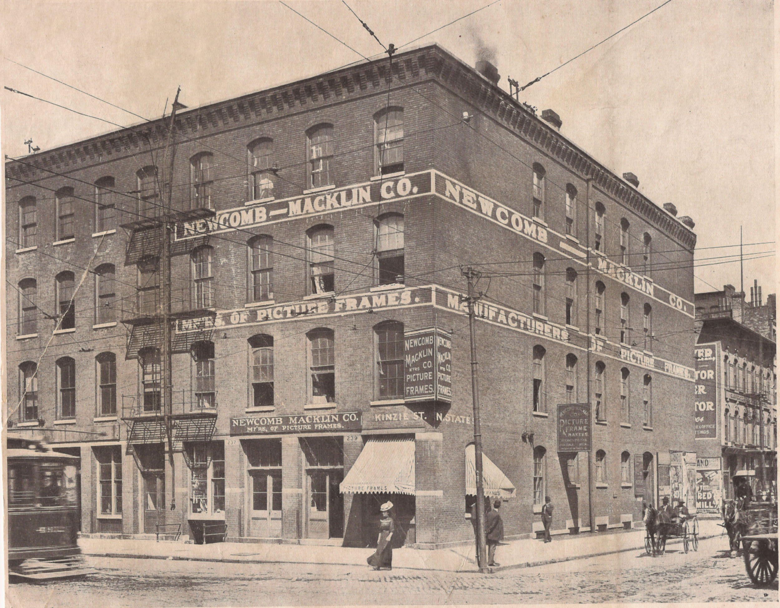 Ca. 1900 photograph of Newcomb-Macklin Company's Chicago factory where the firm's extensive line of hand-carved and gilded picture frames were designed and produced.